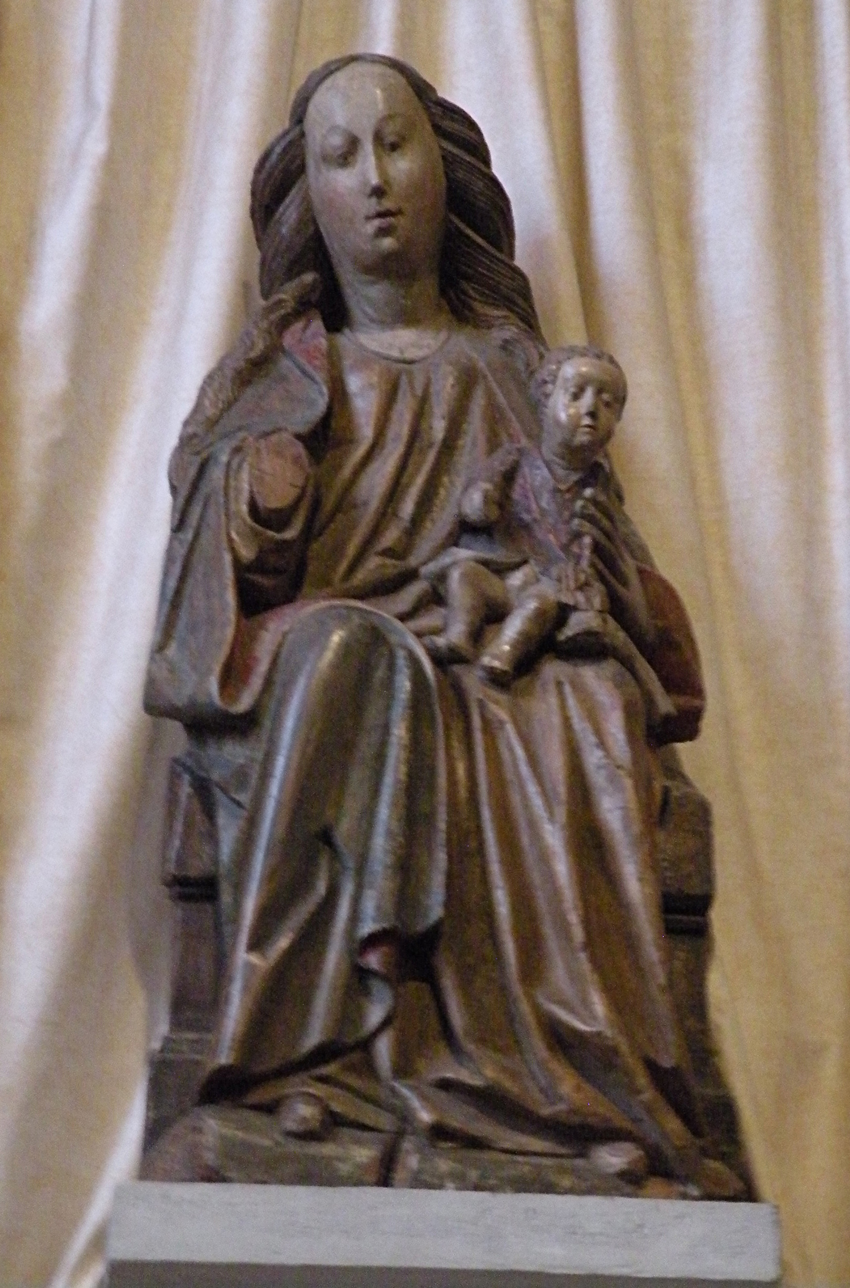 Notre-Dame-du-Précieux-Sang statue in Saint-Guénolé church, Batz-sur-Mer.